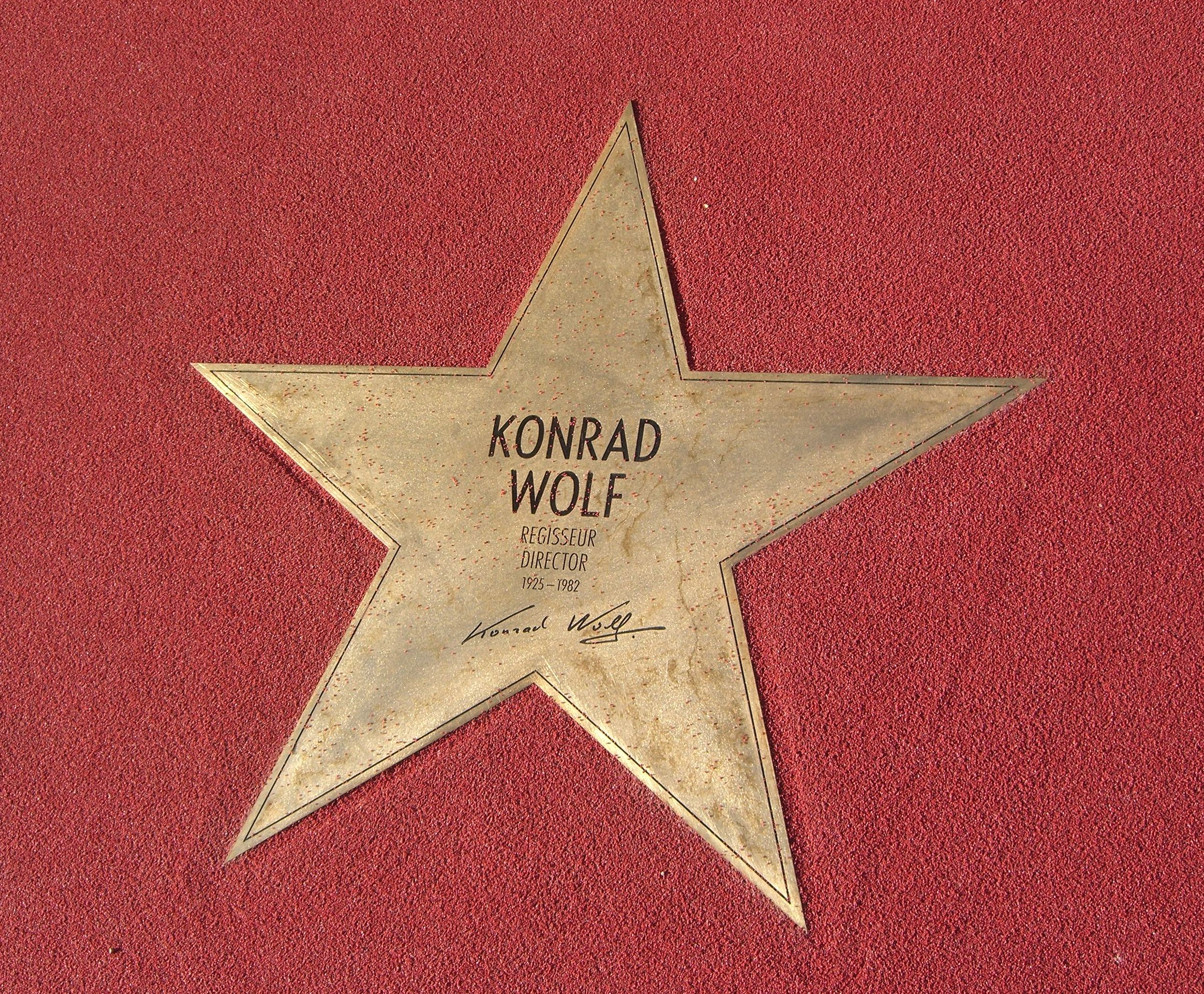 Star of Konrad Wolf at "Boulevard der Stars" in Berlin.